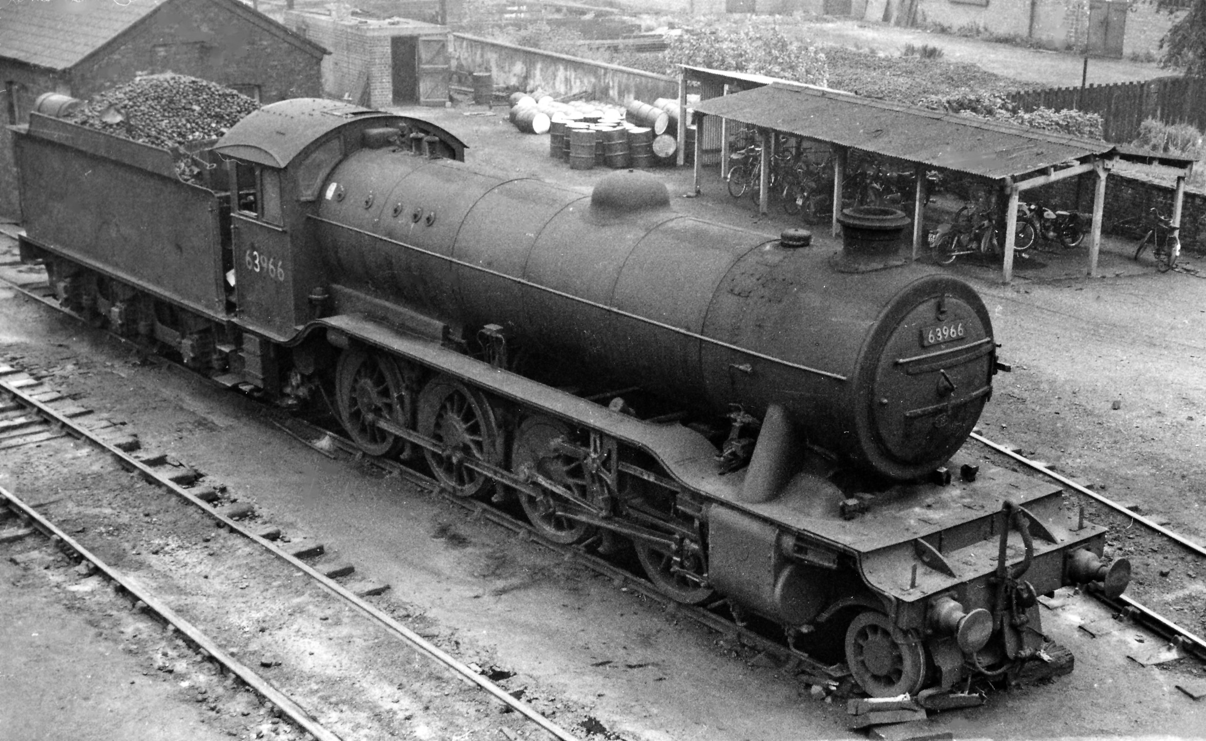 LNER 2-8-0 at Retford (GC) Locomotive Depot. No. 63966 is a Gresley Class O2/3 2-8-0 of the later series with side-window cab, built 8/42 and rebuilt 1/58 as Class O2/4 with 100A boiler.